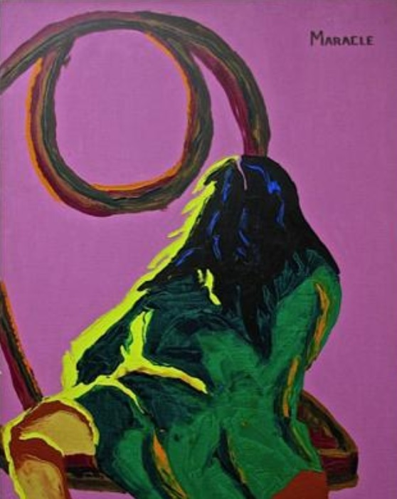 Photograph of a painting by Clifford Maracle